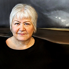 Portrait of artist Benny Alba, taken by photographer, Joe Ramos.